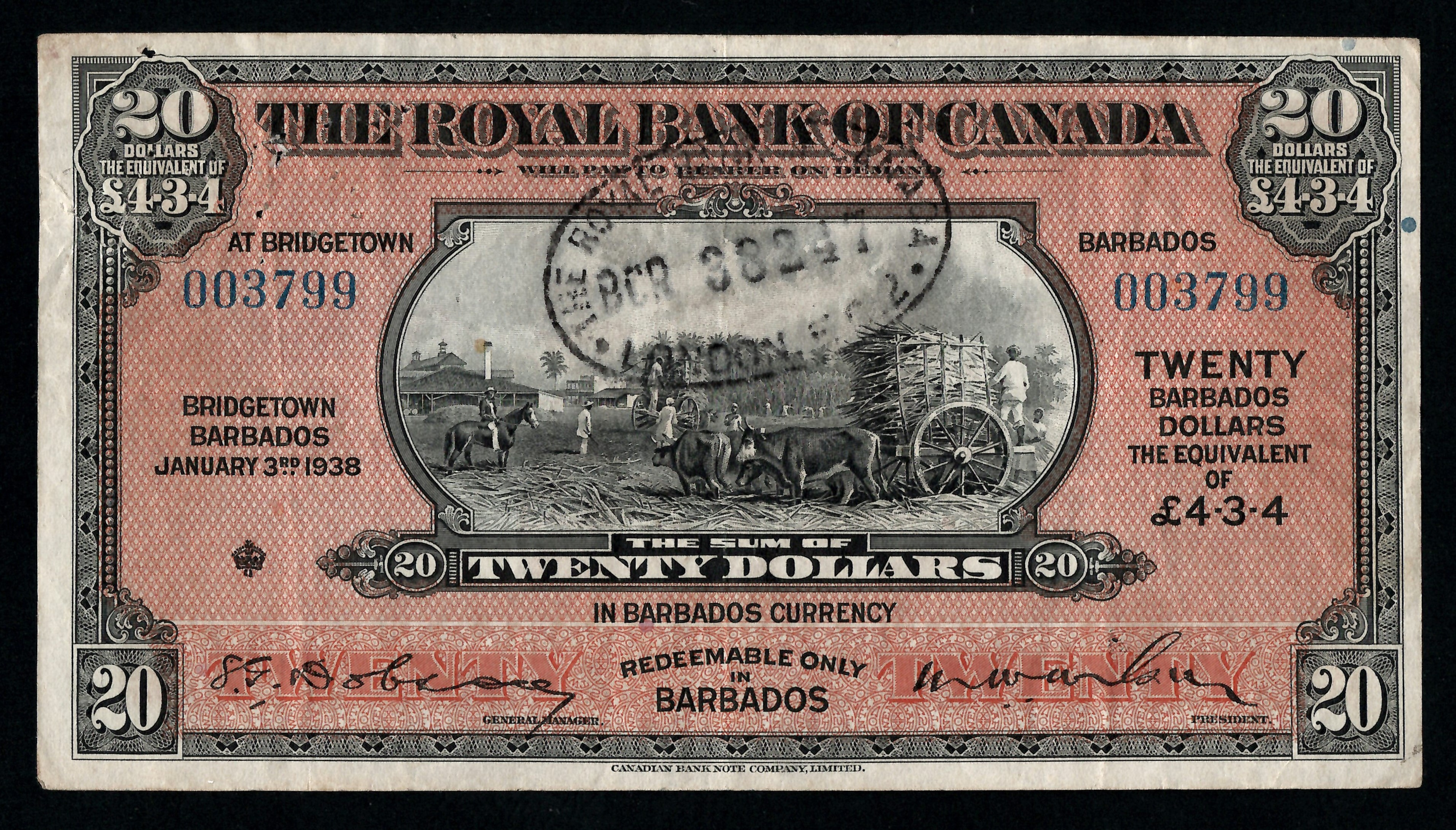 Royal Bank of Canada, Trinidad, 1920, $20 or £4.3.4